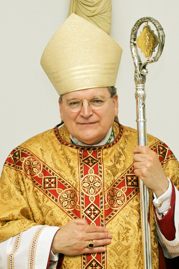 Picture of Archbishop Raymond Leo Burke taken in the Spring of 2008.